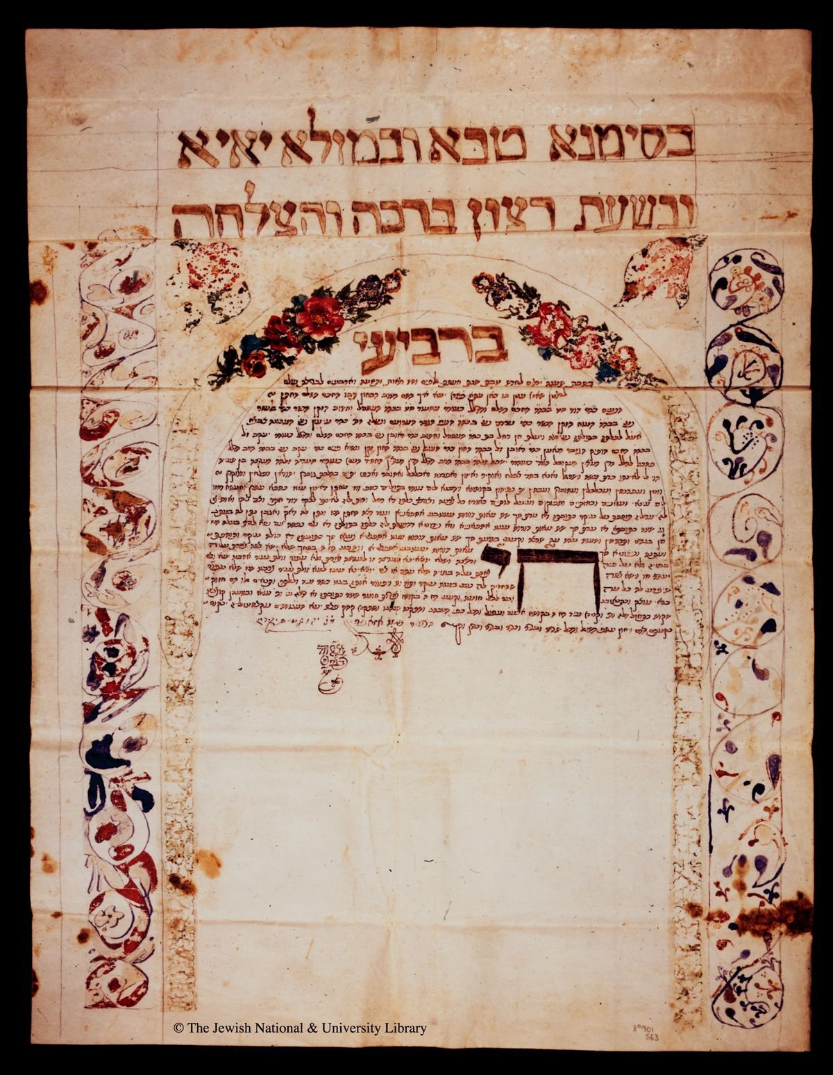 Ketubah from The Ketubot Collection of the National Library of Israel